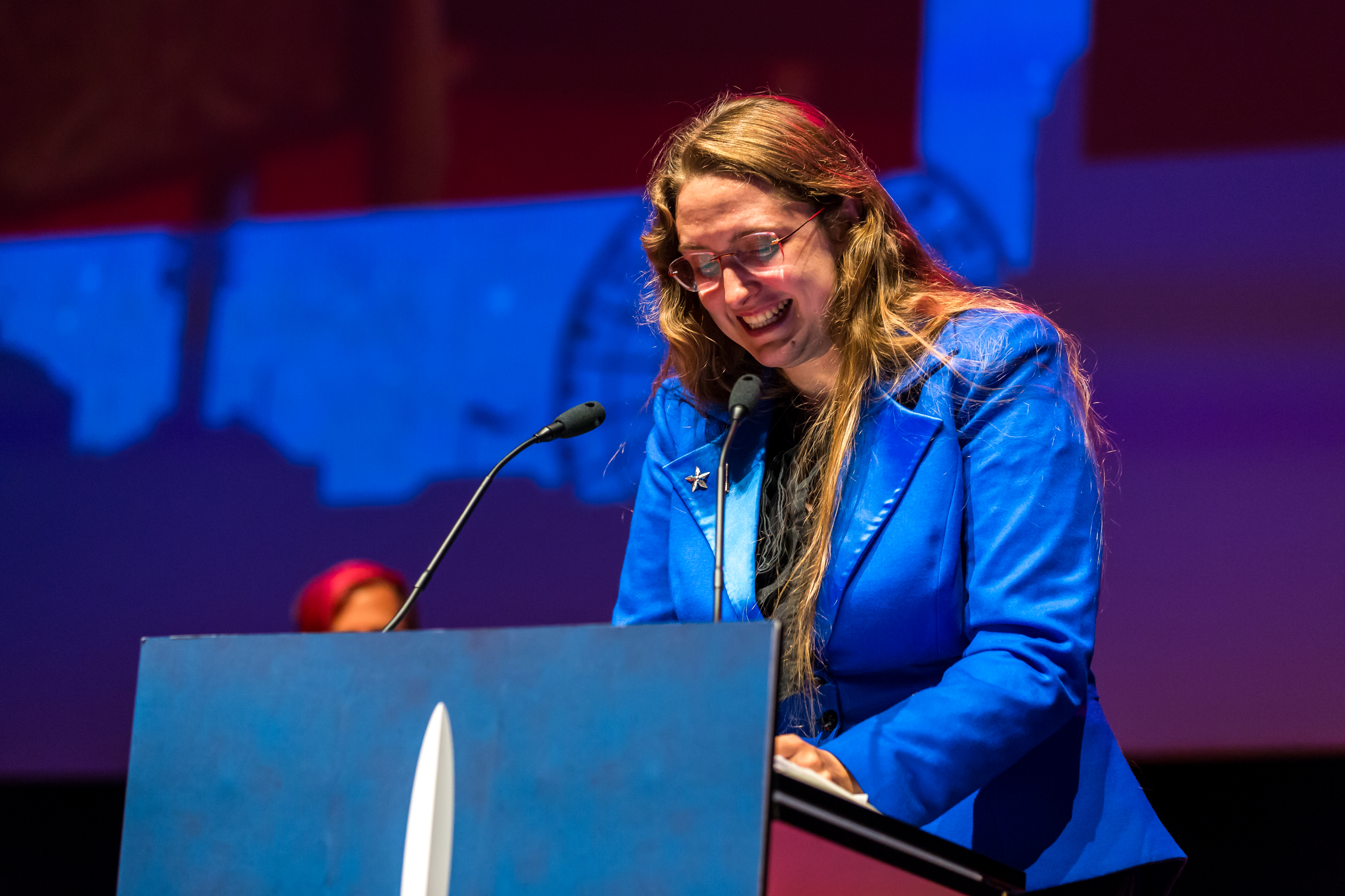 Ada Palmer accepting the John W. Campbell Award at the Hugo Award Ceremony, at Worldcon 75 in Helsinki 2017.jpg